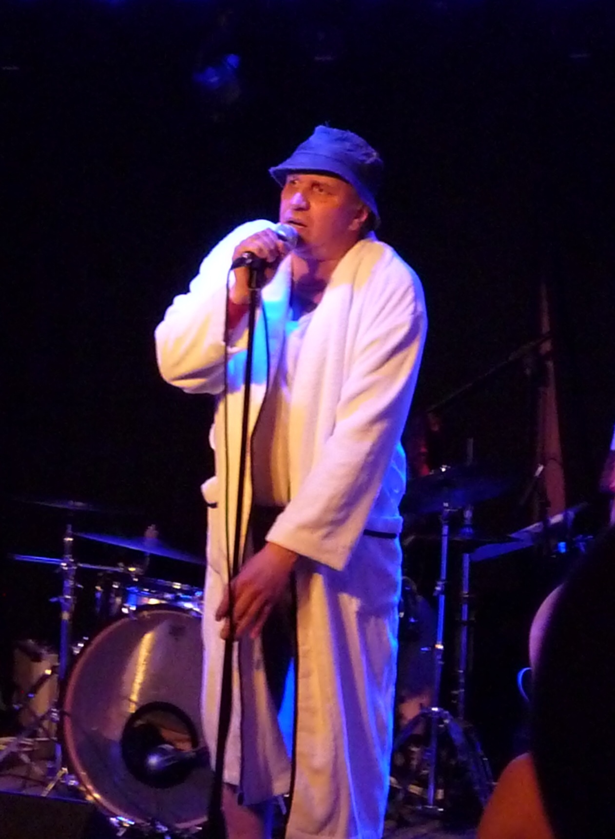 Jens Rachut live with Kommando Sonne-nmilch (Kleiner Klub/Saarbrücken) 2010